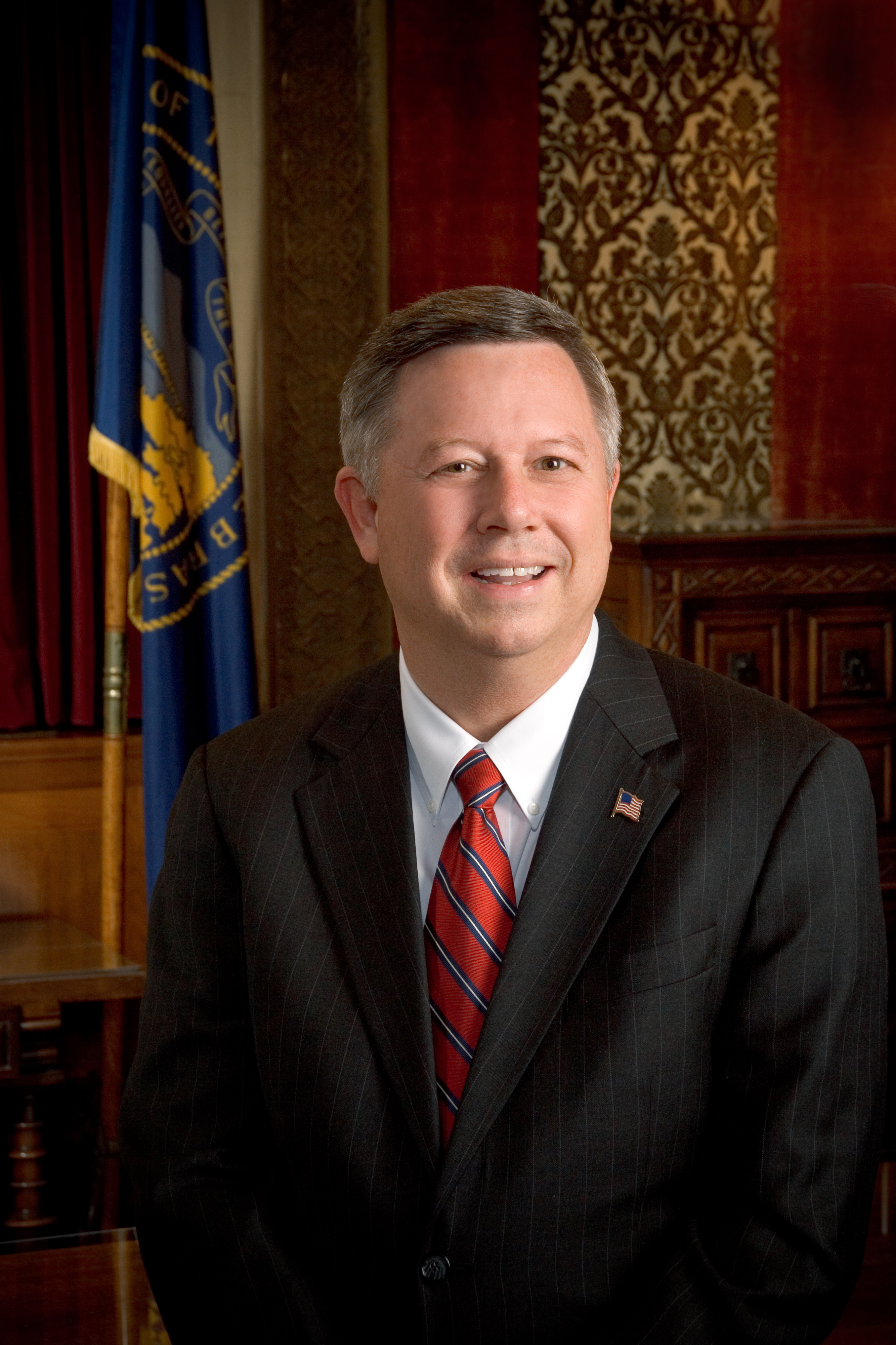 Official photo of Governor Dave Heineman (R-NE).